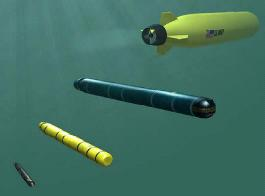 Unmanned Underwater Vehicles PD-Military-Navy